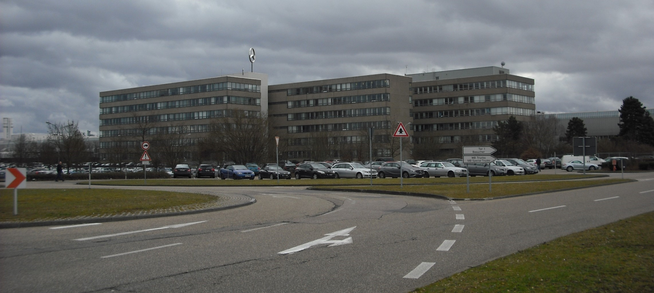 Mercedes Benz Wörth plant